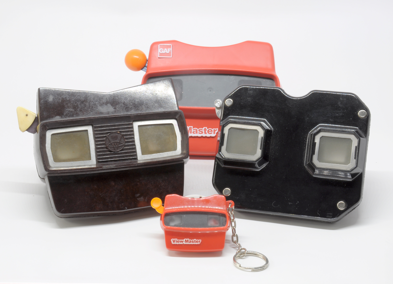 View-Master Model E, L, C